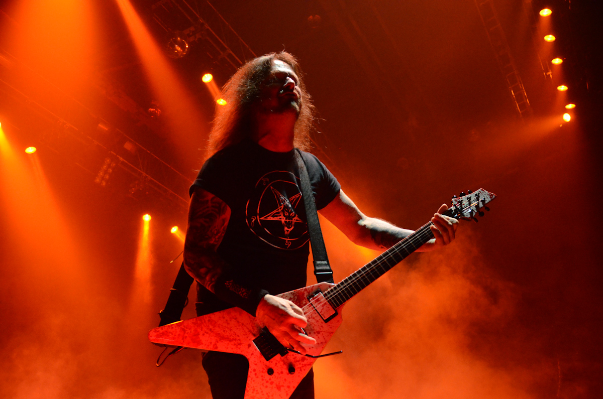 Gary Holt, live with Slayer.